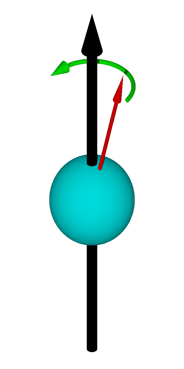 Larmor precession for negative charged particle: magnetic field black, spin red, precession green. Created with POVRAY.